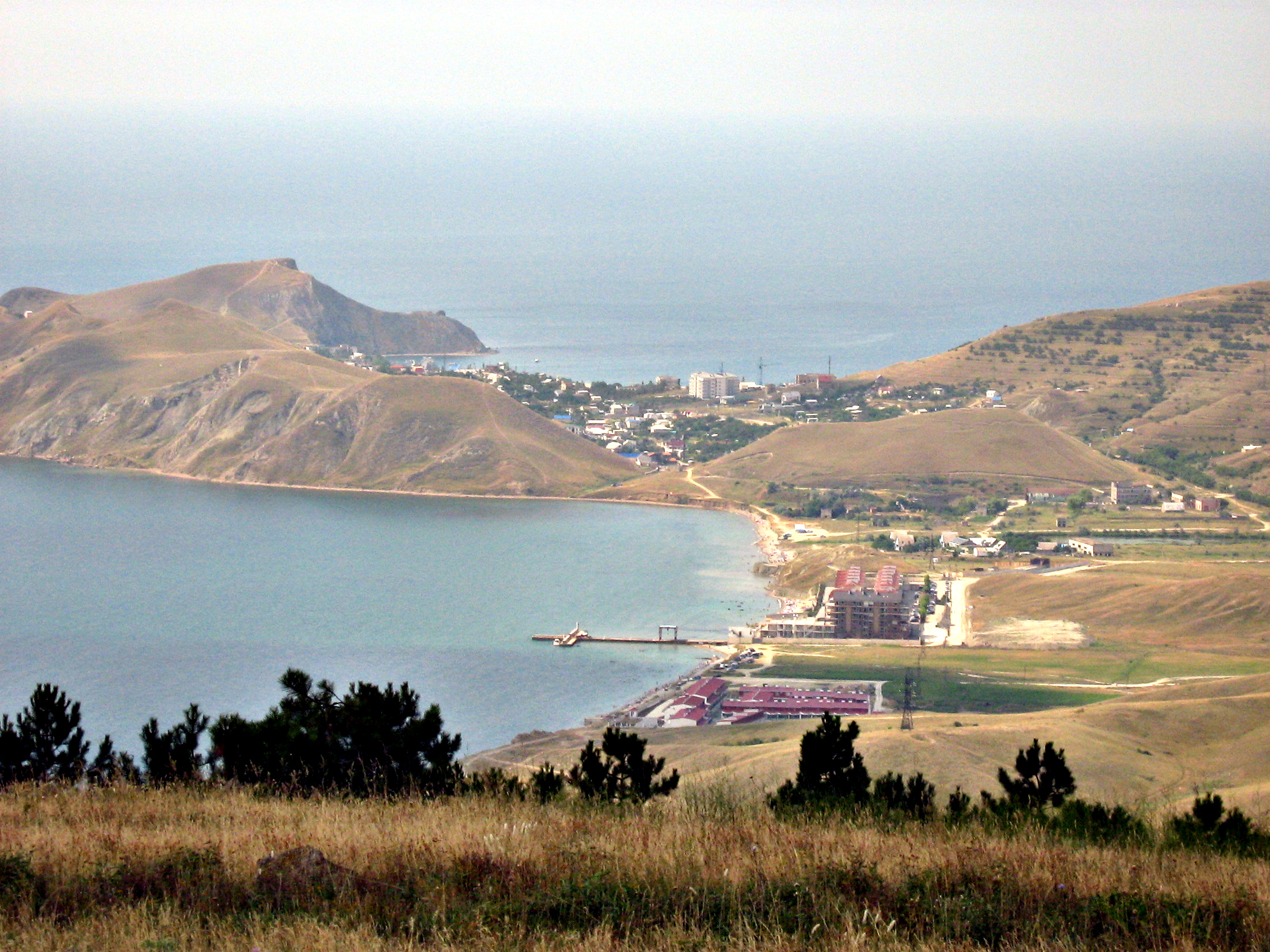 View from Tepe-Oba. Crimea. Ukraine.